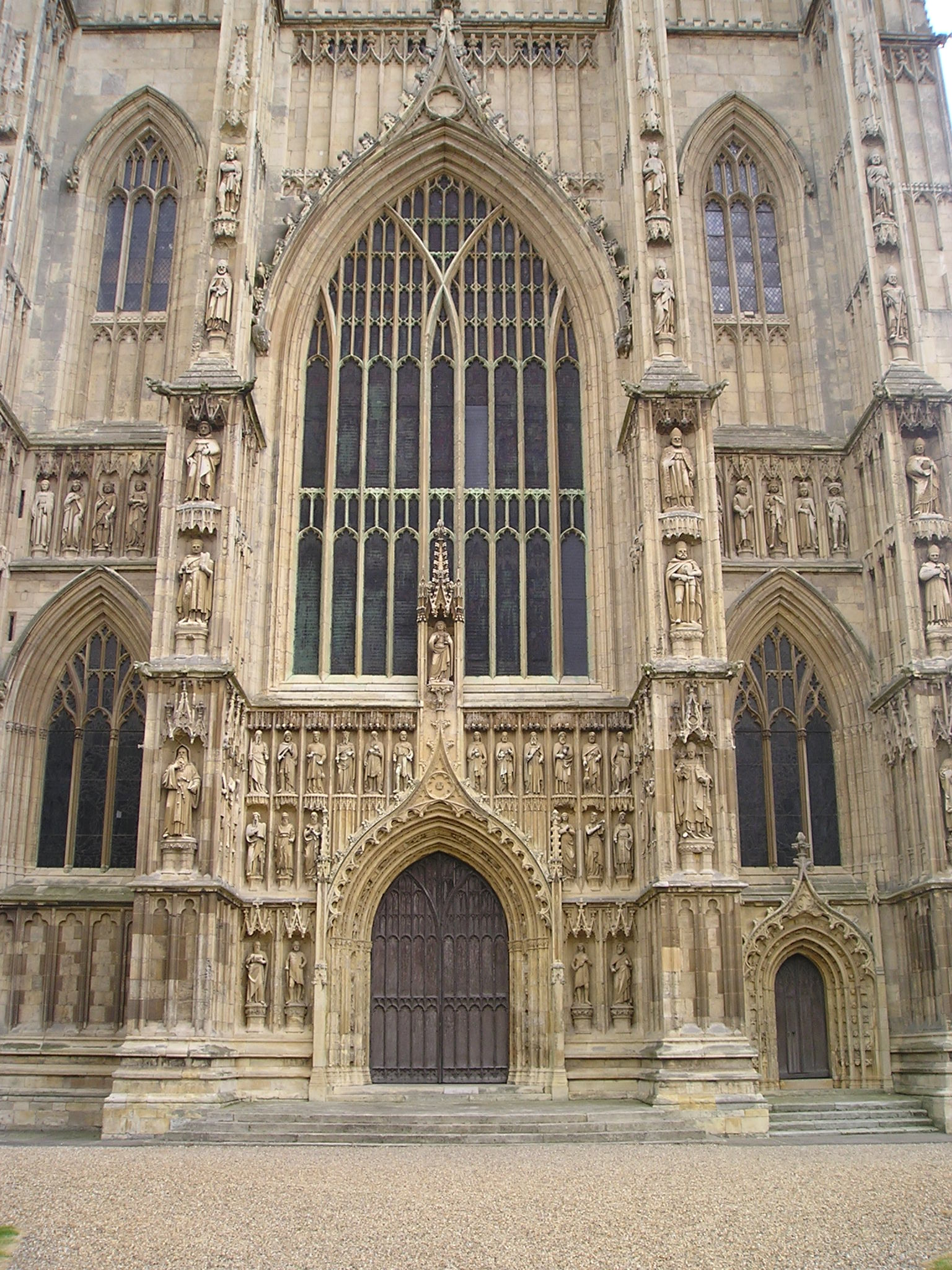 Part of the west front of Beverley Minster, Beverley, East Riding of Yorkshire, England.